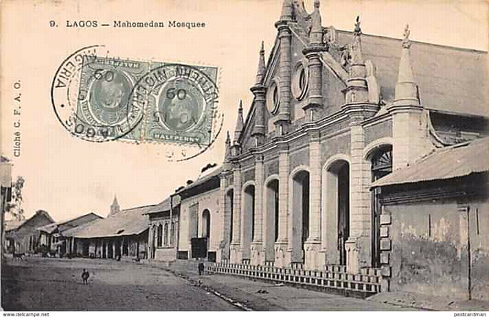 Located at Martins Ereko Street, Lagos Island, Lagos, Nigeria. It was established in 1892 and designated as National monument by Nigerian Commission for Museums and Monuments in 2013. The mosque is considered one of the most important historical legacies of Nigeria, was named after its founder Sierra Leonean-born Nigerian, Mohammed Shitta Bey, who was an aristocrat, philanthropist and businessman. The construction of the mosque started in 1891 and was financed by Mohammed Shitta Bey, a businessman and philanthropist, son of Sierra Leone-born parents of Yoruba descent. A Brazilian architect João Baptista da Costa oversaw the construction which was done with tile-work depicting the Afro-Brazilian architecture The Shitta-Bey Mosque launched on July 4, 1894, at a ceremony presided over by Governor of Lagos, Sir Gilbert Carter. Others in attendance included Oba Oyekan I, Edward Wilmot Blyden, Abdullah Quilliam (who represented Sultan Abdul Hamid II of the Ottoman Empire), and prominent Lagosian Christians such as James Pinson Labulo Davies, John Otunba Payne, and Richard Beale Blaize as well as foreign representatives. Quilliam brought a letter accredited to the Sultan of Turkey asking Lagos Muslims to embrace Western education.